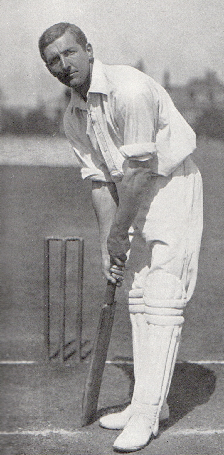 CB Fry in his batting stance, photographed by George Beldam in 1906.